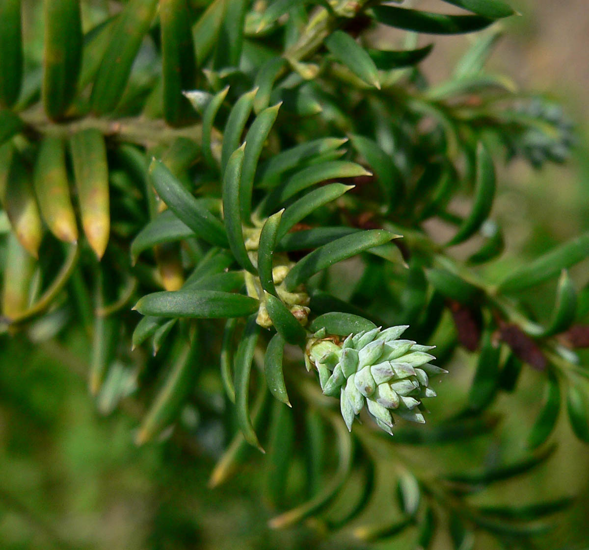 Photo of Saxegothaea conspicua at the San Francisco Botanical Garden